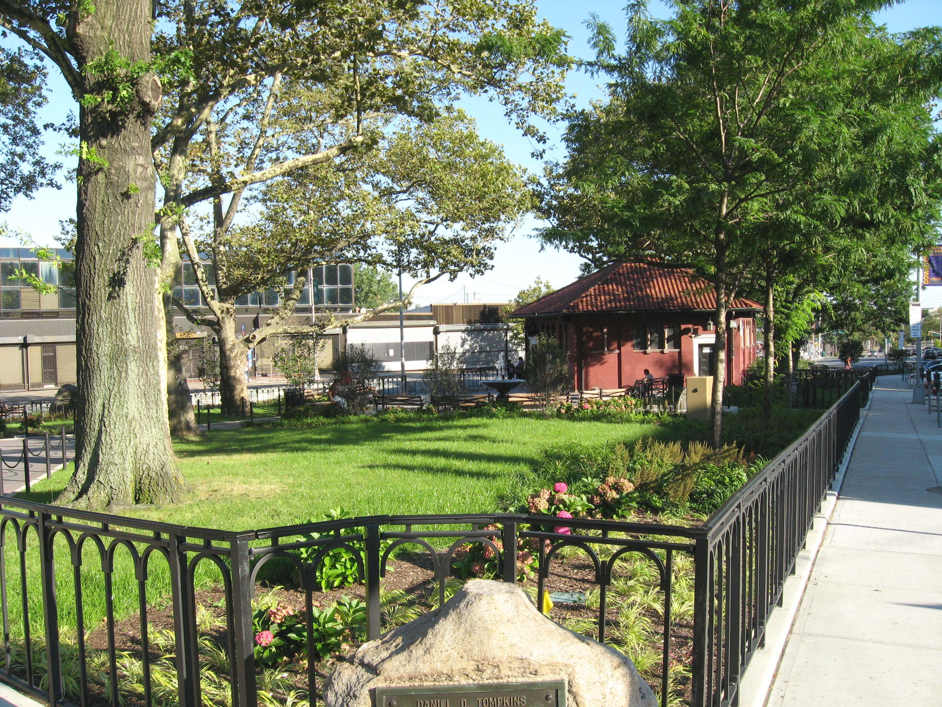 Looking south at Tompkinsville Park in Tompkinsville on a sunny afternoon